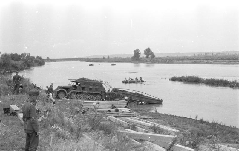 Units of the German 11th army (Heeresgrüppe Süd) building a pontoon bridge (probably using a Sd.Kfz. 11 as tractor) across the Prut river in Romania during the advance towards Uman.